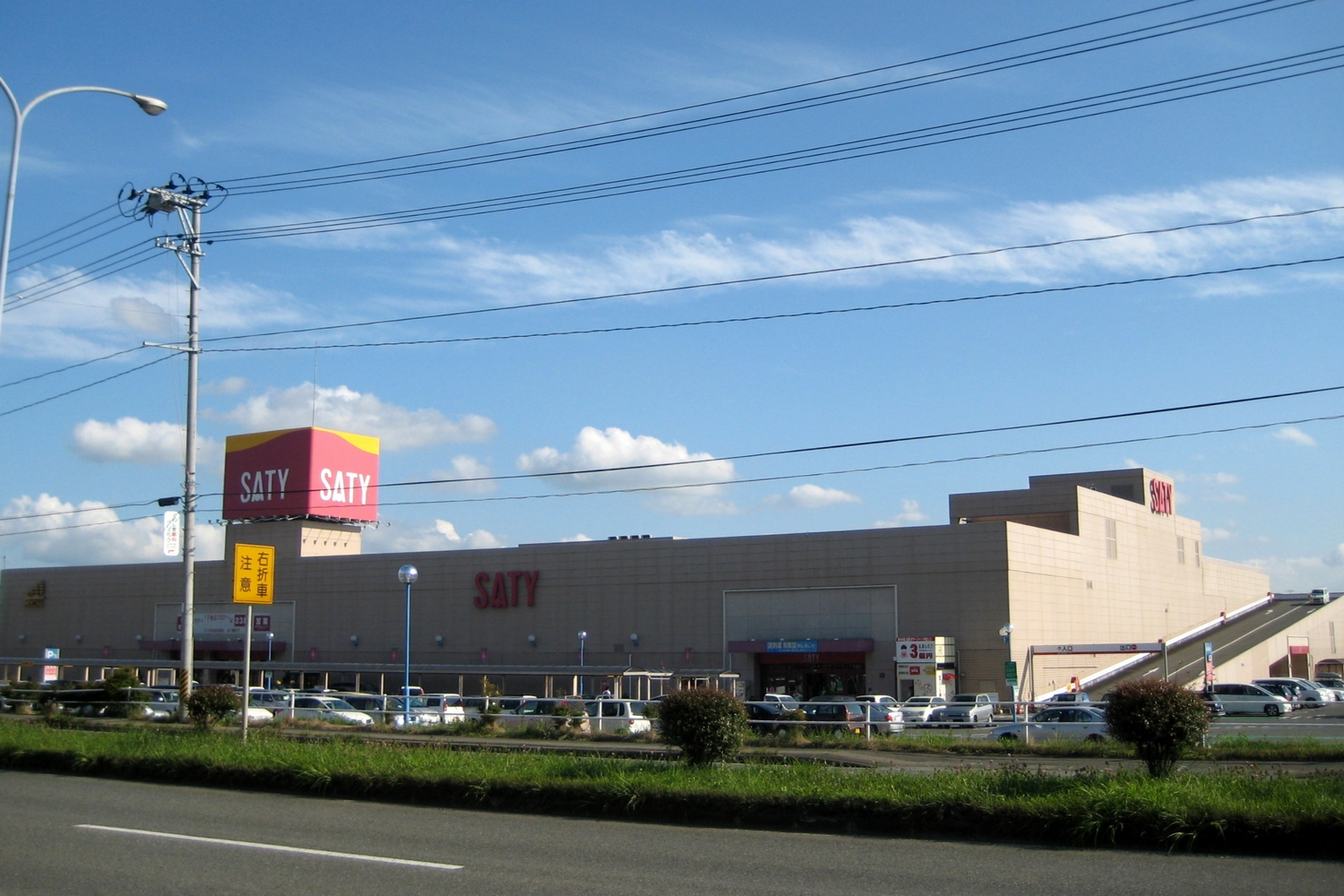 ichinoseki_saty